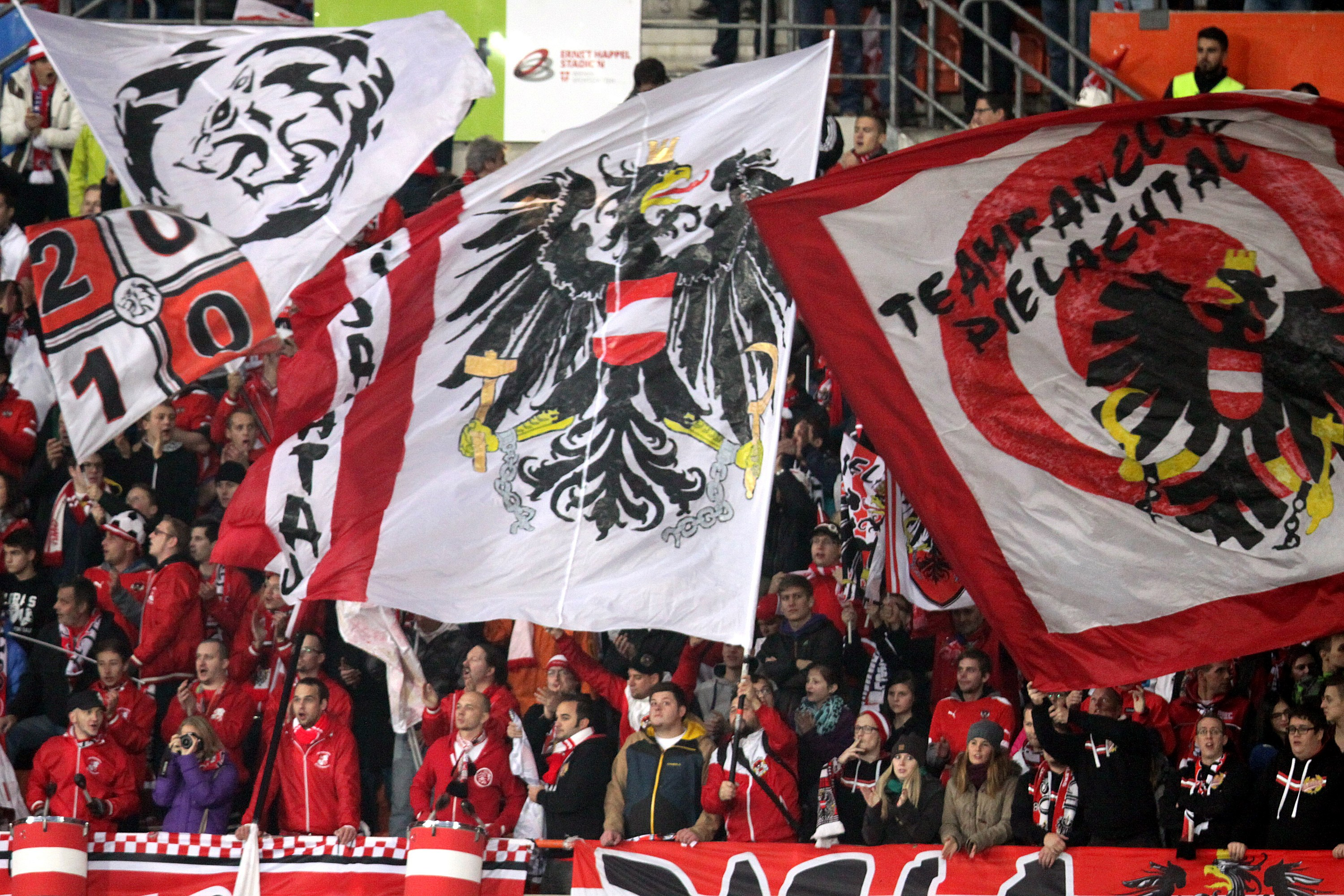 UEFA Euro 2016 qualifying, Group G – Austria (red shirts) vs. Liechtenstein (blue shirts) 3–0 (1–0) on 2015-10-12 in Ernst-Happel-Stadion, Vienna – The photo shows supporters of Austria national football team.